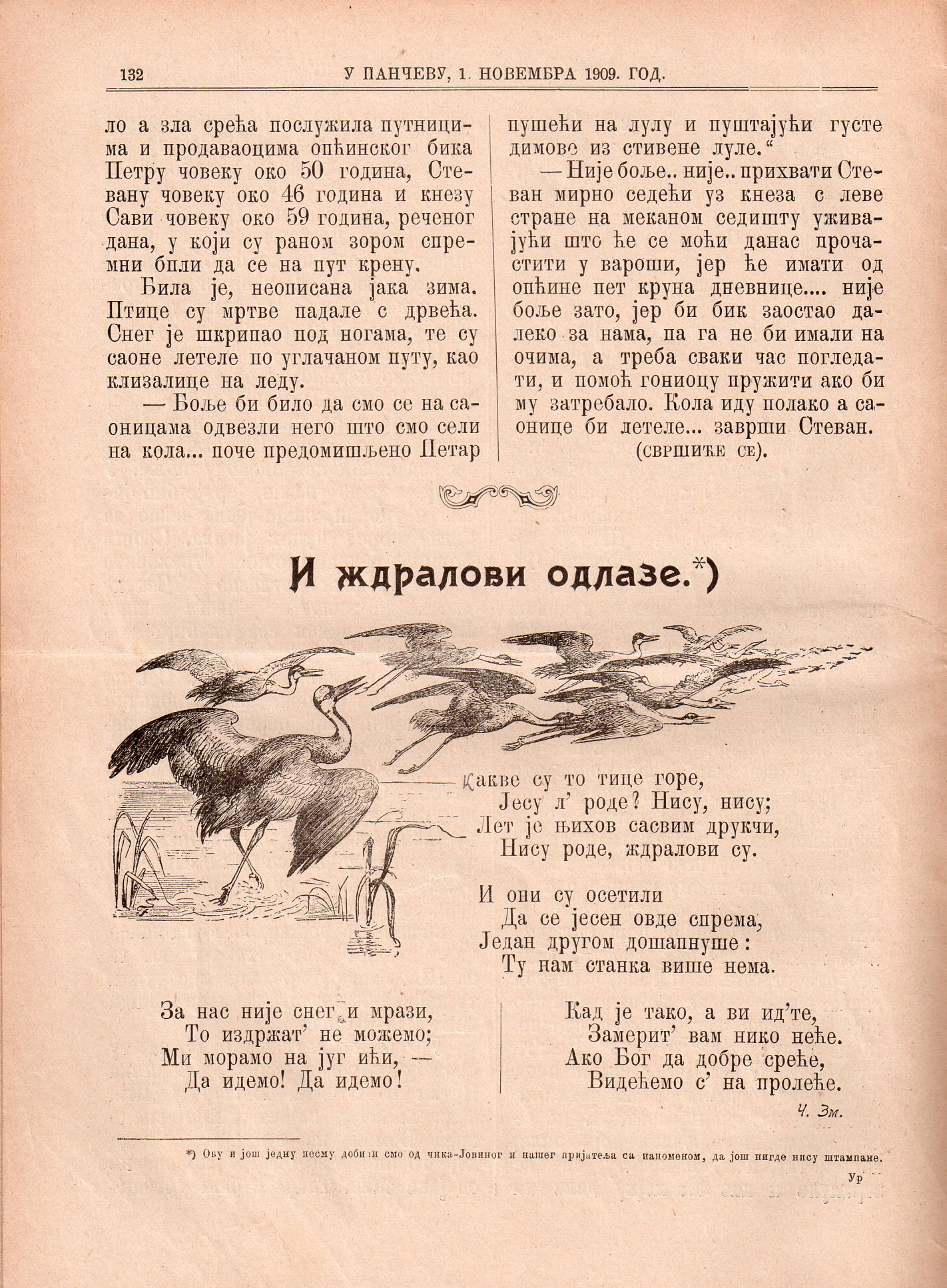 Spomenak, children magazine, number 11, 1909.